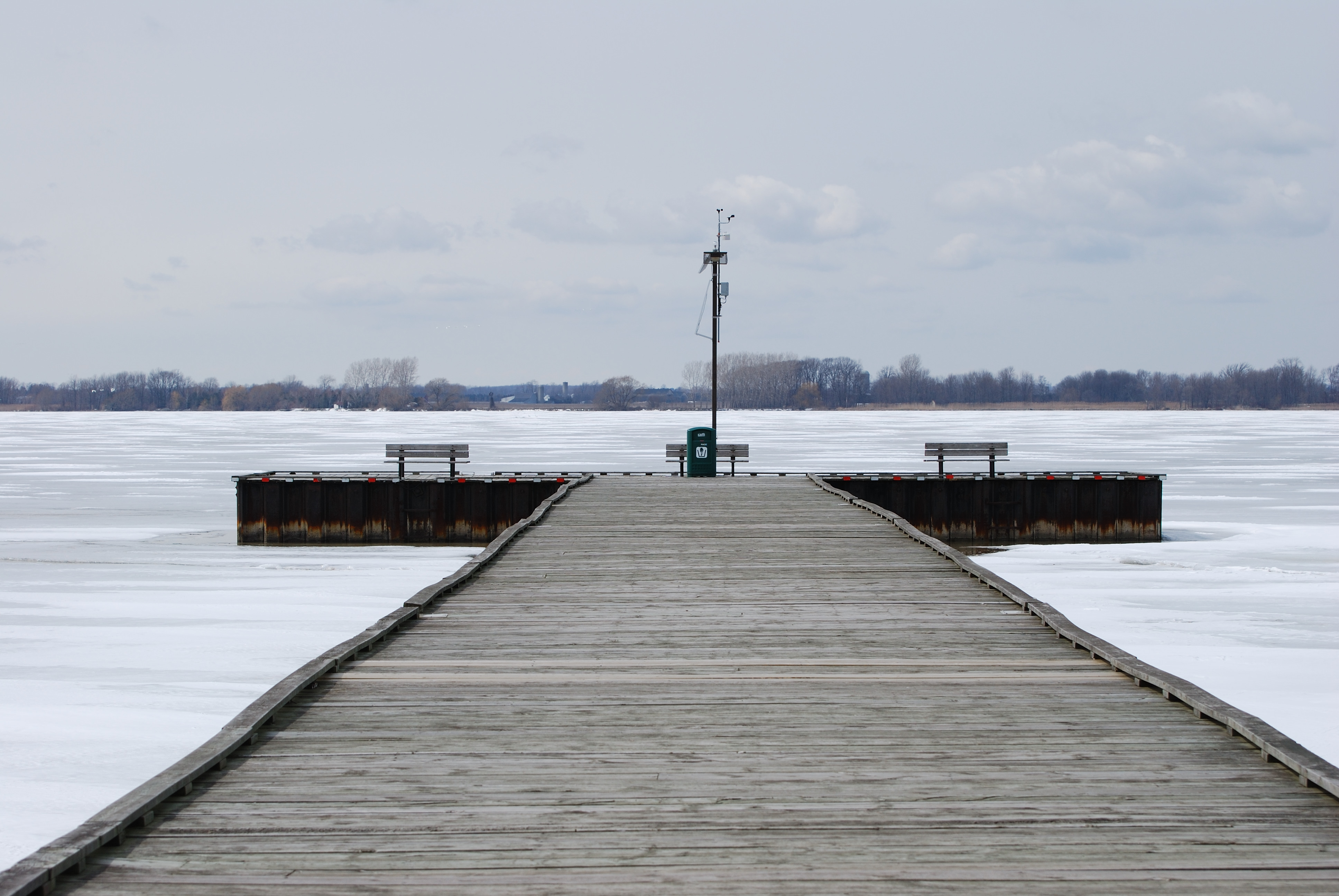 Rondeau Park in March 2008